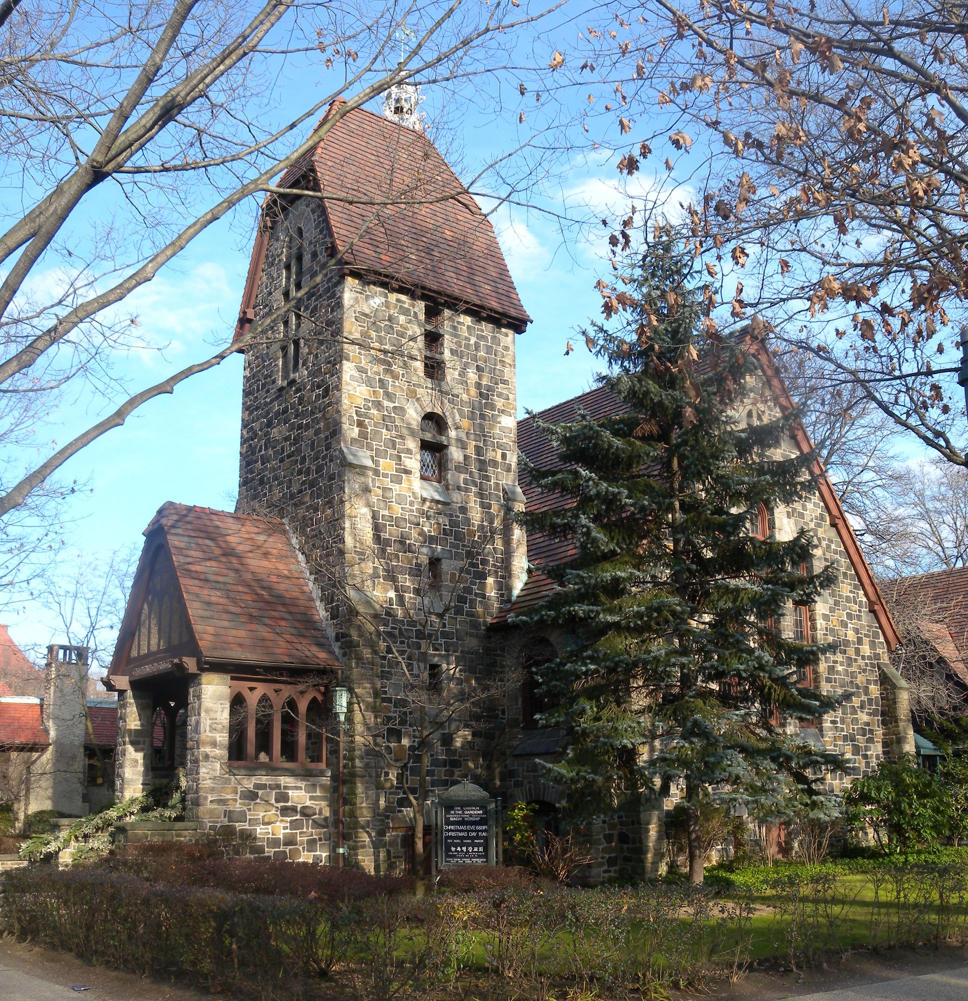 Looking northeast at Church in the Gardens on a sunny early afternoon.